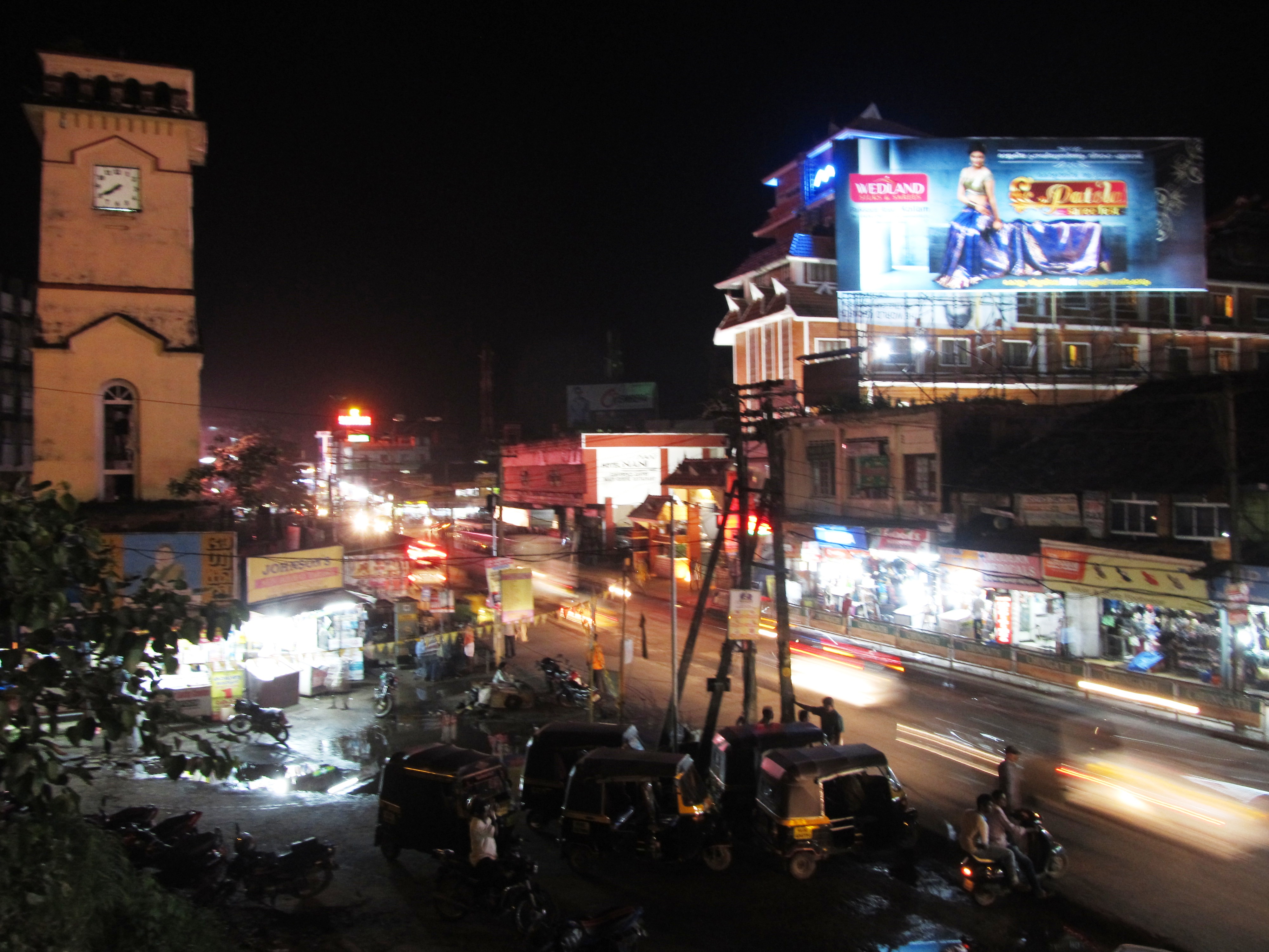 Busy streets of Kollam in an evening